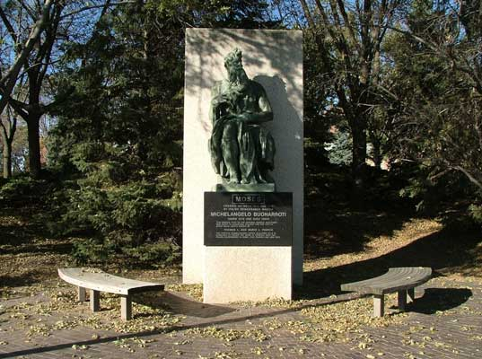 Shot by Jerry Fisher on 13 October, 2005 at Augustana College. This bronze reproduction of the Moses by Michelangelo was a gift by the Faywick's to the city of Sioux Falls as a gesture of appreciation.